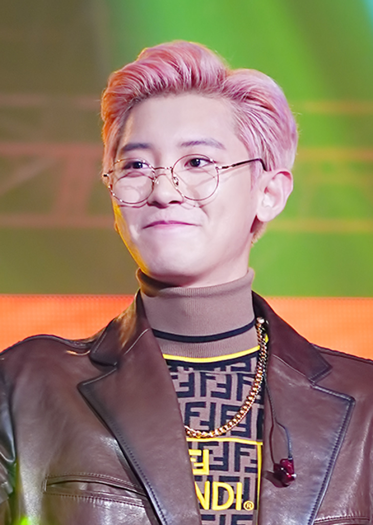 Chanyeol at a Dynamic Duo concert on December 8, 2019.